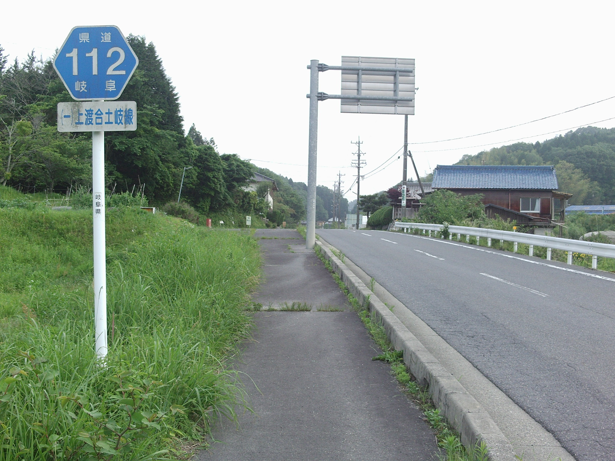 Gifu prefectural road No.112 in Tsurusatochokakino, Toki, Gifu.